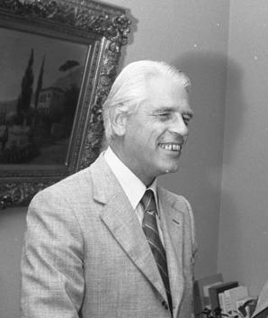 Title: Bonn, Empfang bei Bundesratsdirektor Dr. Pfitzer Extra information: Von rechts: Albert Pfitzer, Conrad Ahlers People in the image: Ahlers, Conrad: Regierungssprecher, Leiter des Bundespresseamtes, Bundesrepublik Deutschland (GND 123440084) Pfitzer, Albert Dr. jur.: Ministerialdirektor, Direktor des Bundesrates, Bundesrepublik Deutschland# Additional information: Cropped to show only Conrad Ahlers Factual corrections and alternative descriptions are encouraged separately from the original description. Additionally errors can be reported at this page to inform the Bundesarchiv. Original historic description: Bundesratsdirektor Dr. Albert Pfitzer gibt Empfang in seinem Haus in BN-Bad Godesberg (Mitte: Conrad Ahlers)